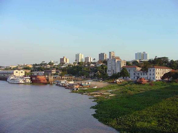 Corumbá, gateway to the Pantanal.